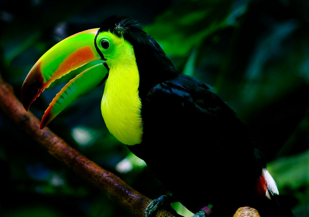 A Keel-billed Toucan (Ramphastos sulfuratus) at the Woodland Park Zoo in Seattle.